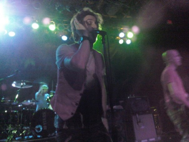 10 Years